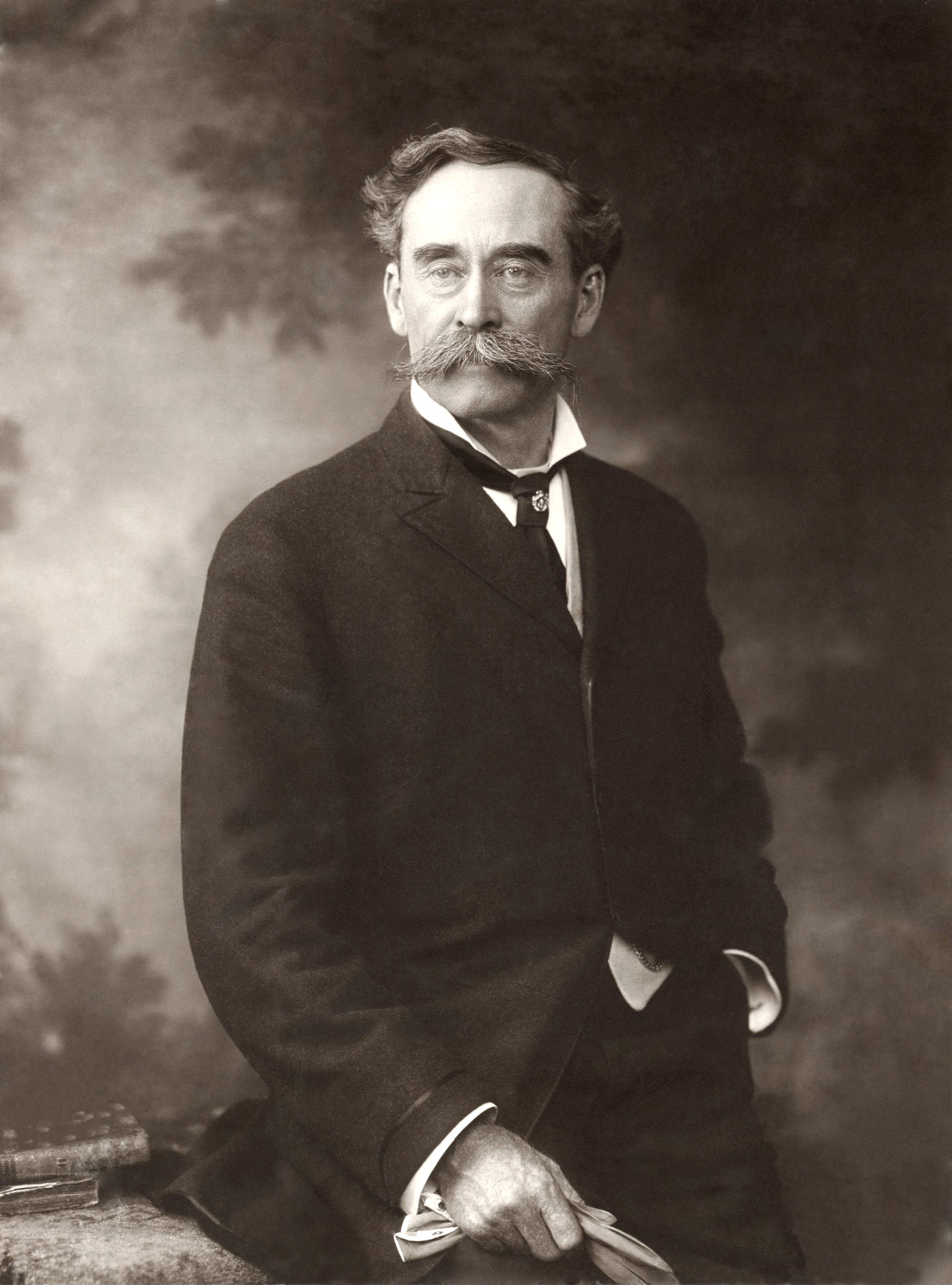 Robert Peary, US Navy rear admiral, engineer and North Pole explorer.